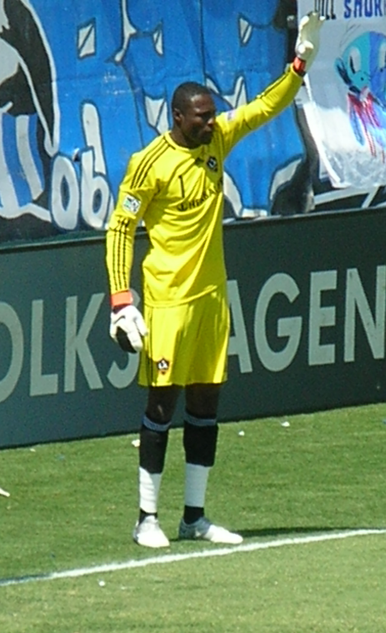 LA Galaxy goalkeeper Donovan Ricketts at an away game against the San Jose Earthquakes. The Earthquakes won 1-0.